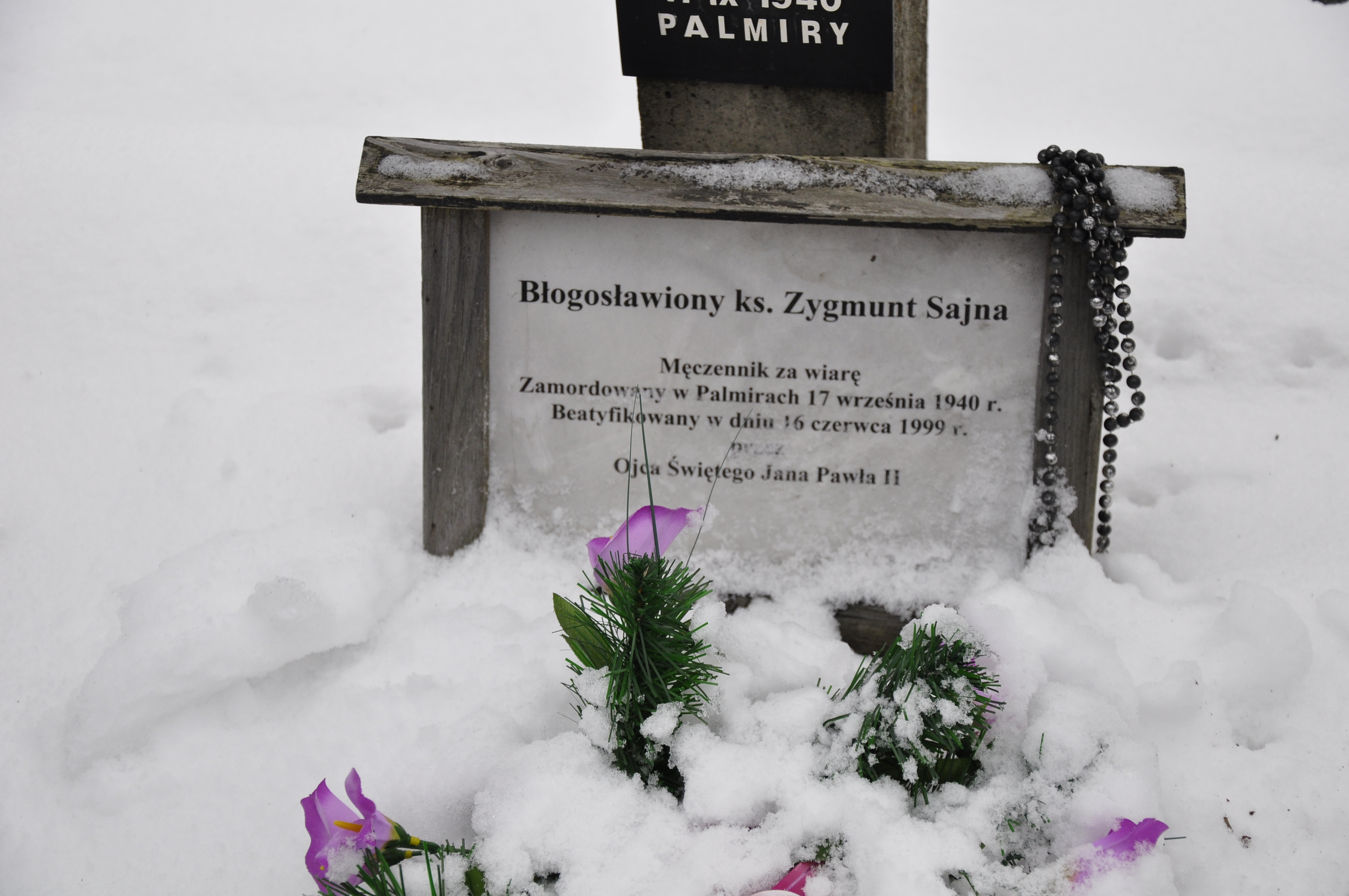 Palmiry memorial